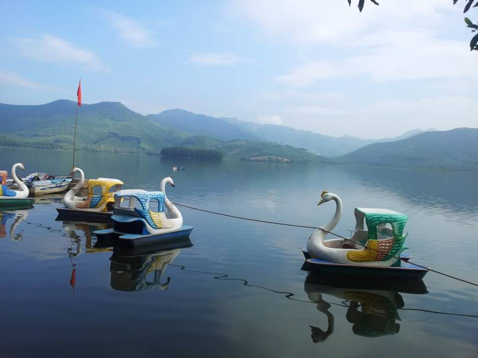 ĐôngTriều